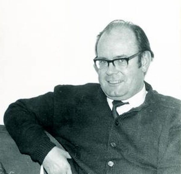 Konrad Jacobs, before 1971